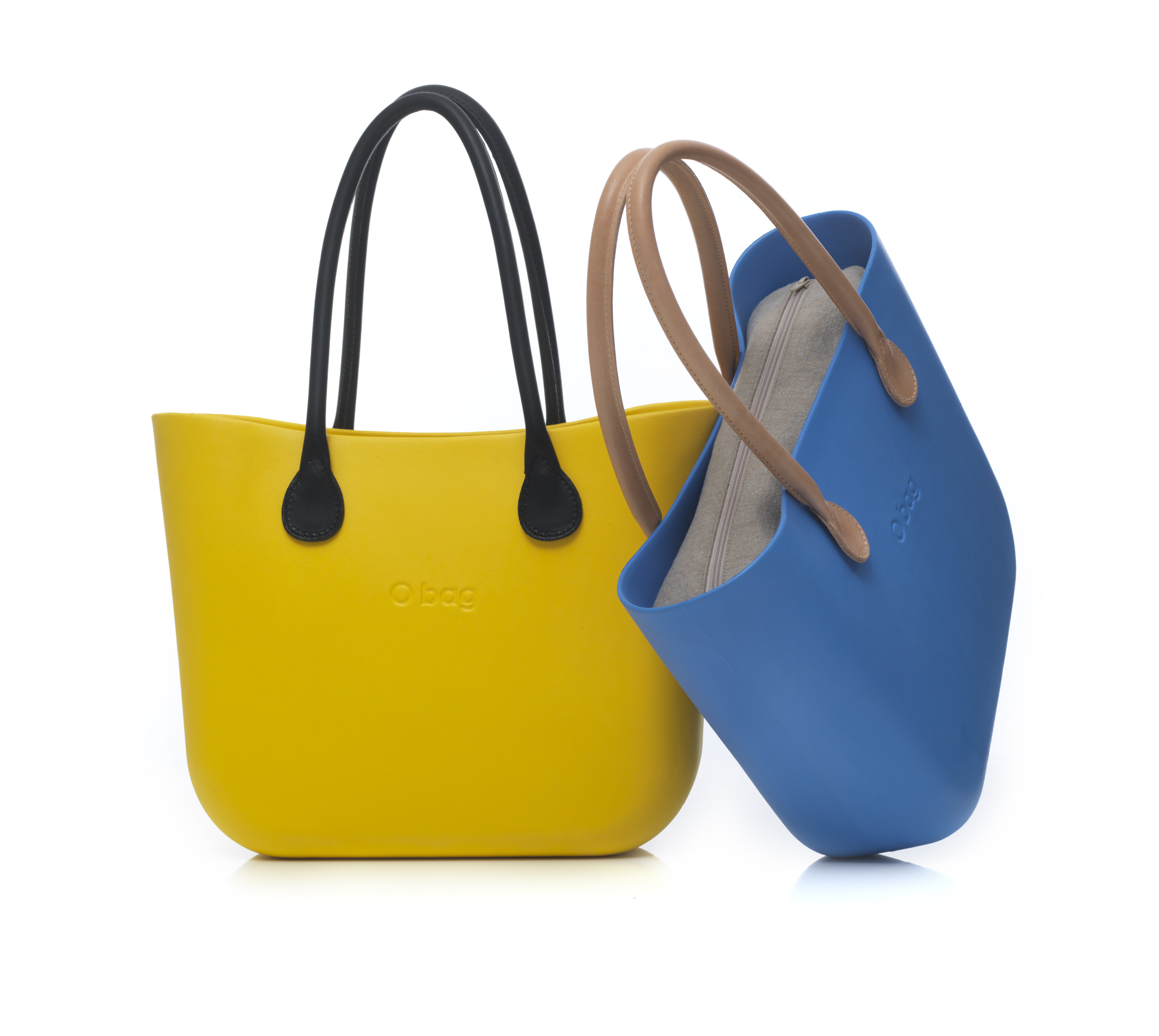 Fullspot O bag Yellow (right), Sky Blue (left)